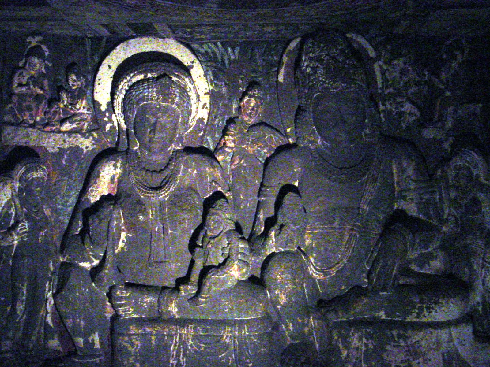 Cave 2, one of the beautifully painted viharas, dates to the late 5th century. This sculpture is from the right side-chapel at the rear of the hall. Hariti, with a child on her lap, was the goddess of smallpox, a child-eating ogress whom the Buddha converted into their protectress. To Hariti's left (viewer's right, in shadow) is her consort Panchika, who in some traditions is called Atavaka.